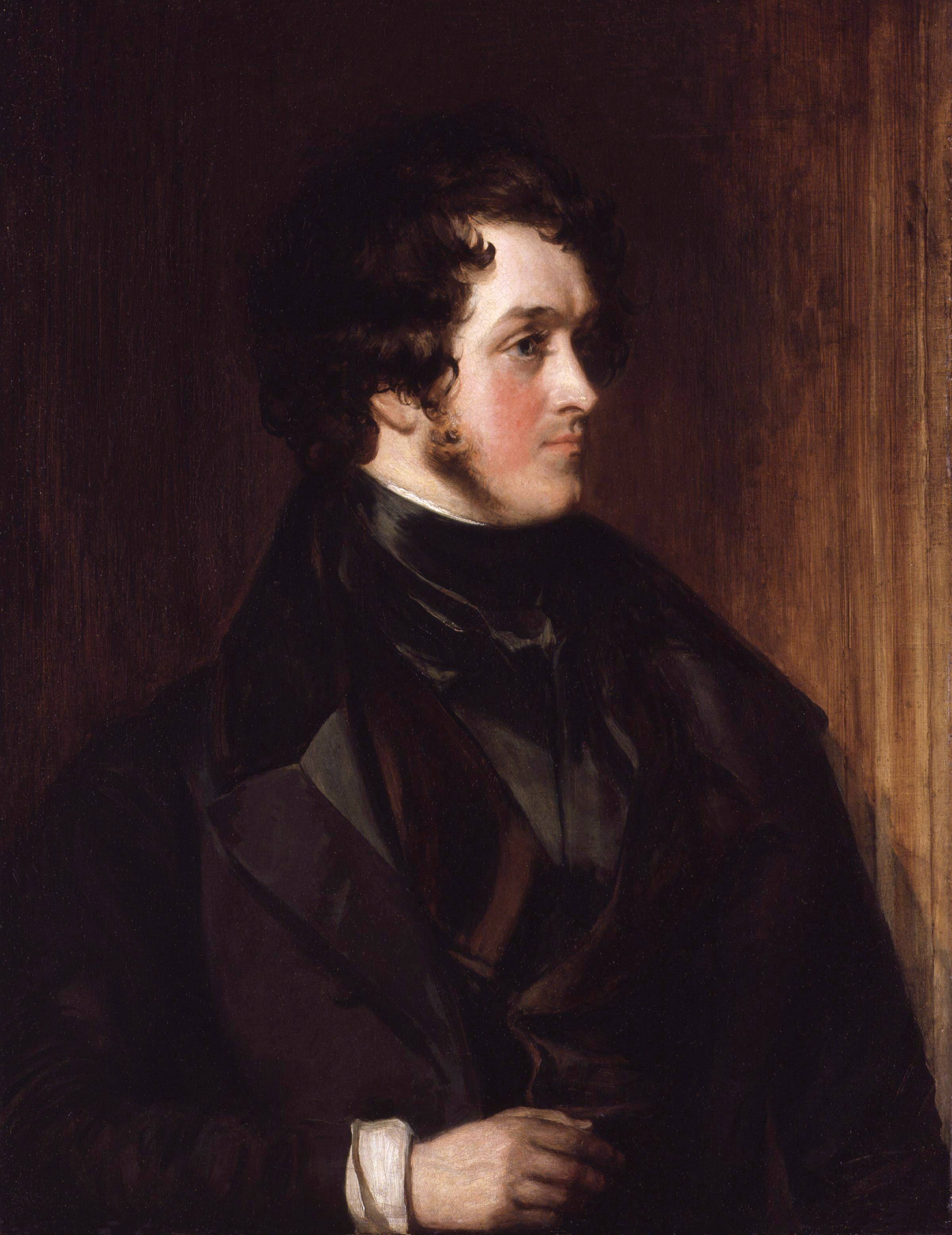 William Harrison Ainsworth, by Daniel Maclise (died 1870), given to the National Portrait Gallery, London in 1949. All images in this batch have been confirmed as author died before 1939 according to the official death date listed by the NPG.